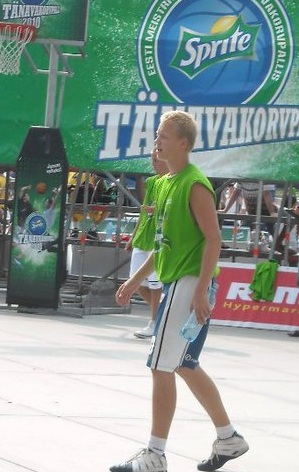 Aivar Kisel playing streetball